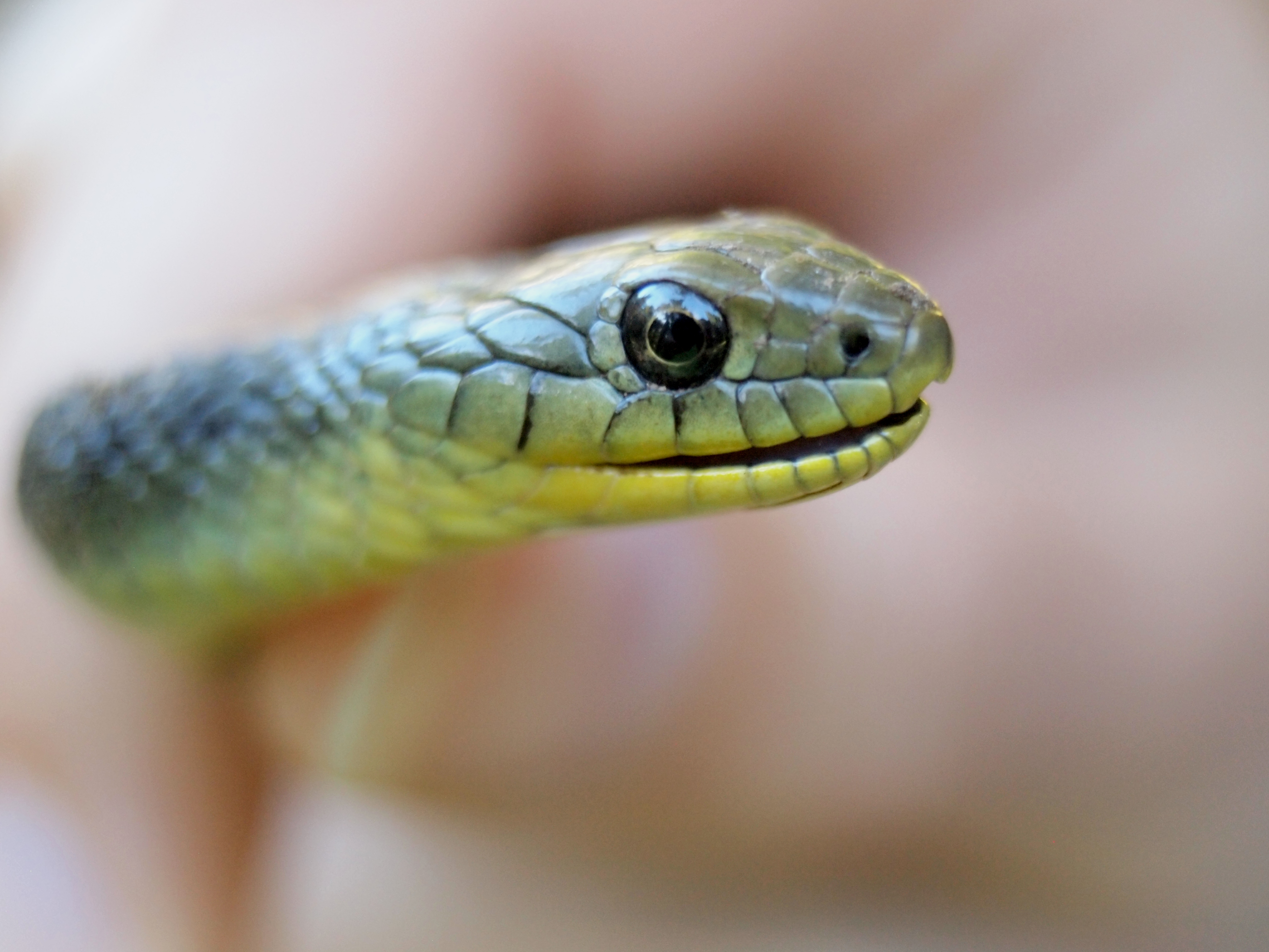 The Santa Cruz Garter Snake, Thamnophis atratus atratus. Taken on the campus of the University of California, Santa Cruz, USA.